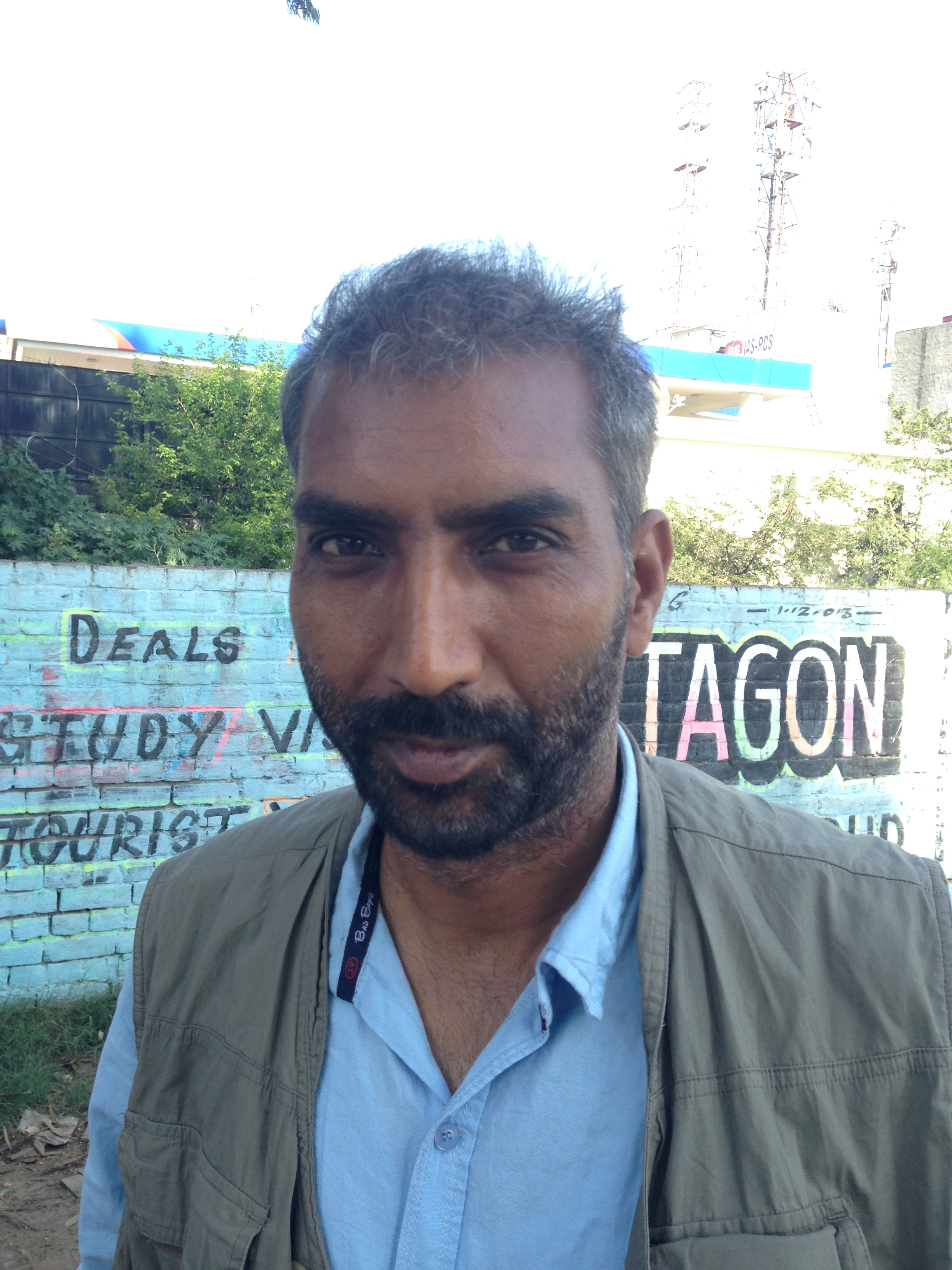 Punjabi Dramatist and Actor